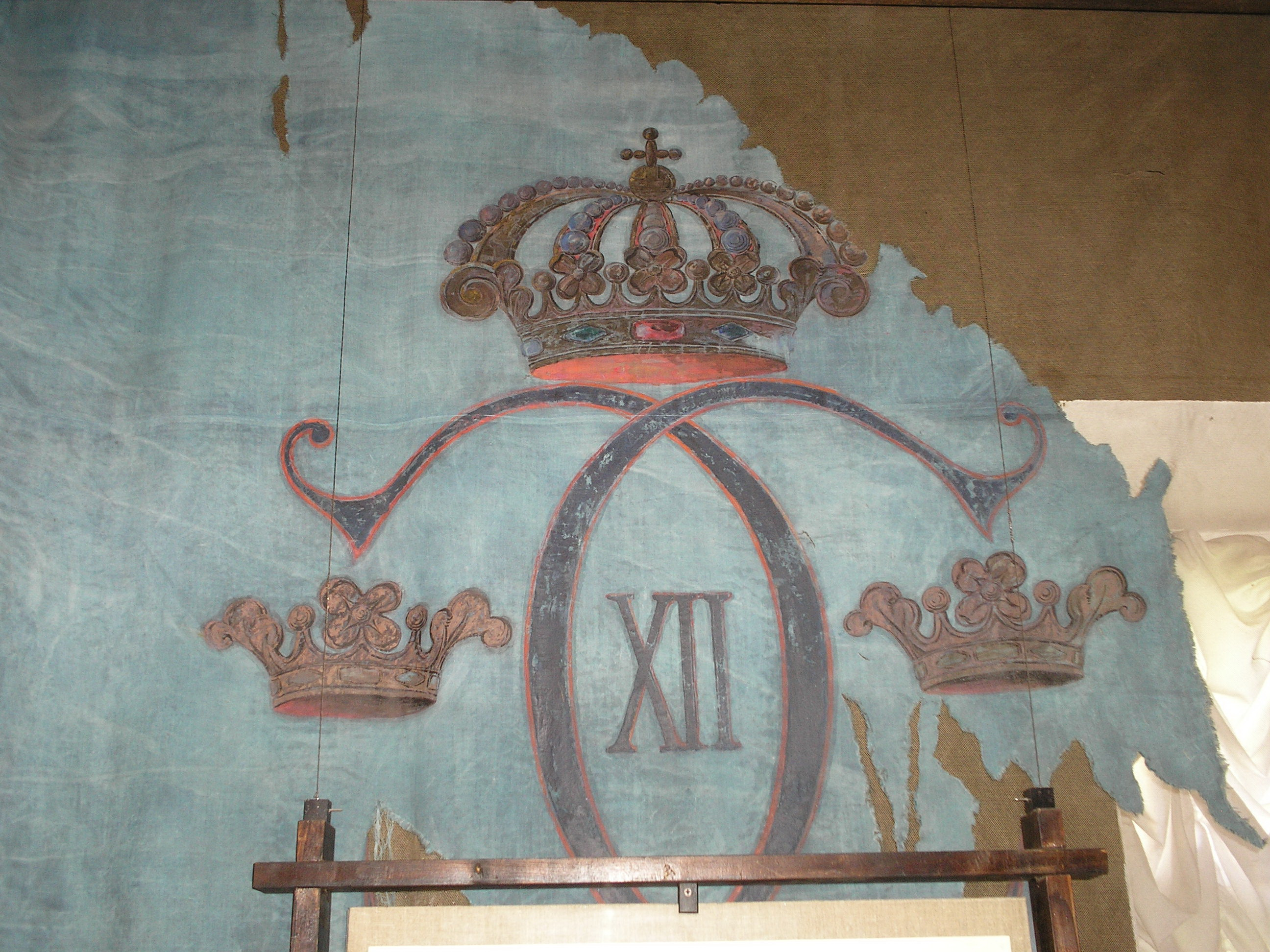 King's colour Charles XII of Sweden